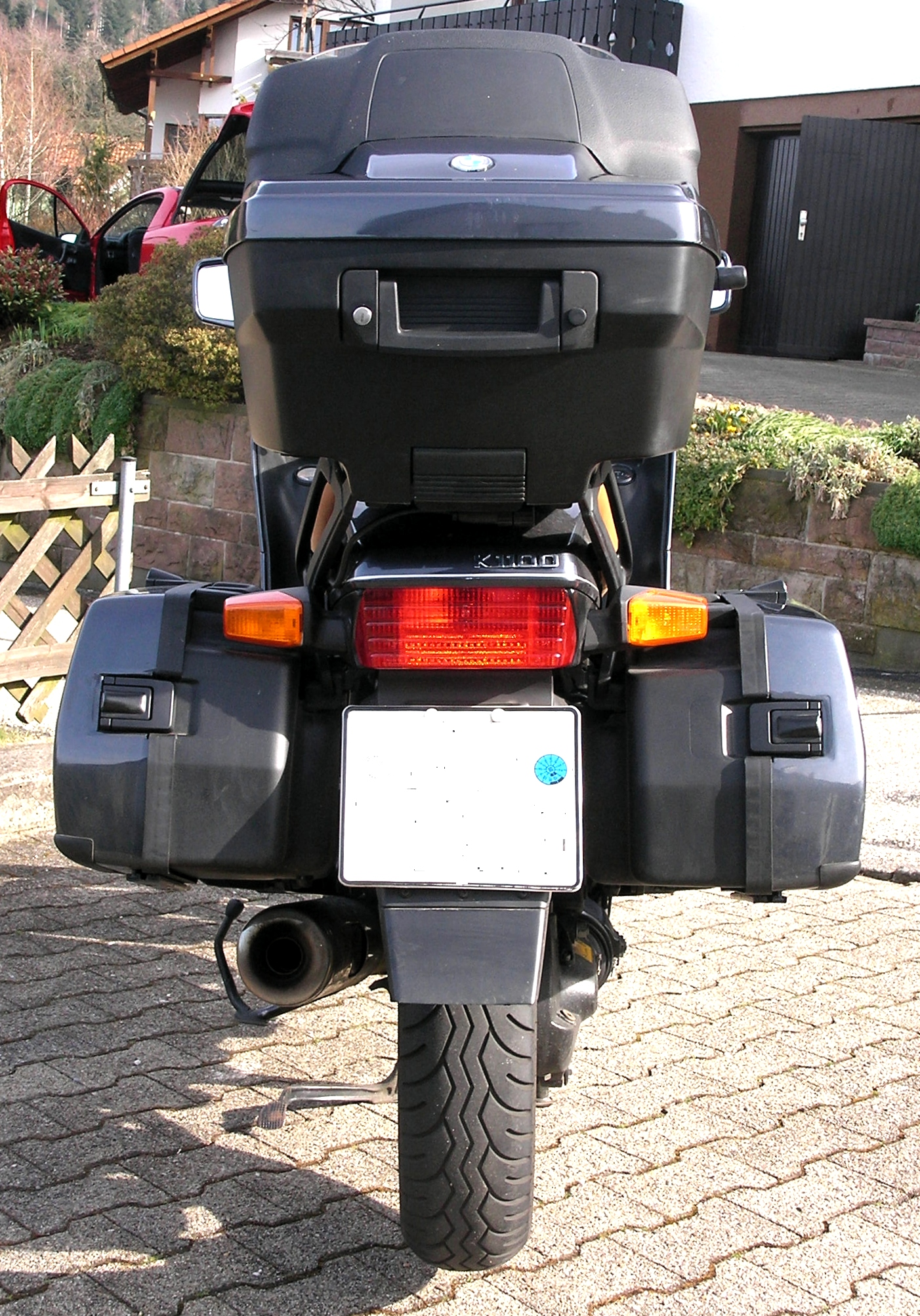 Topcase of BMW K 1100 LT SE, Bj. 1994, with loudspeakers and backrest